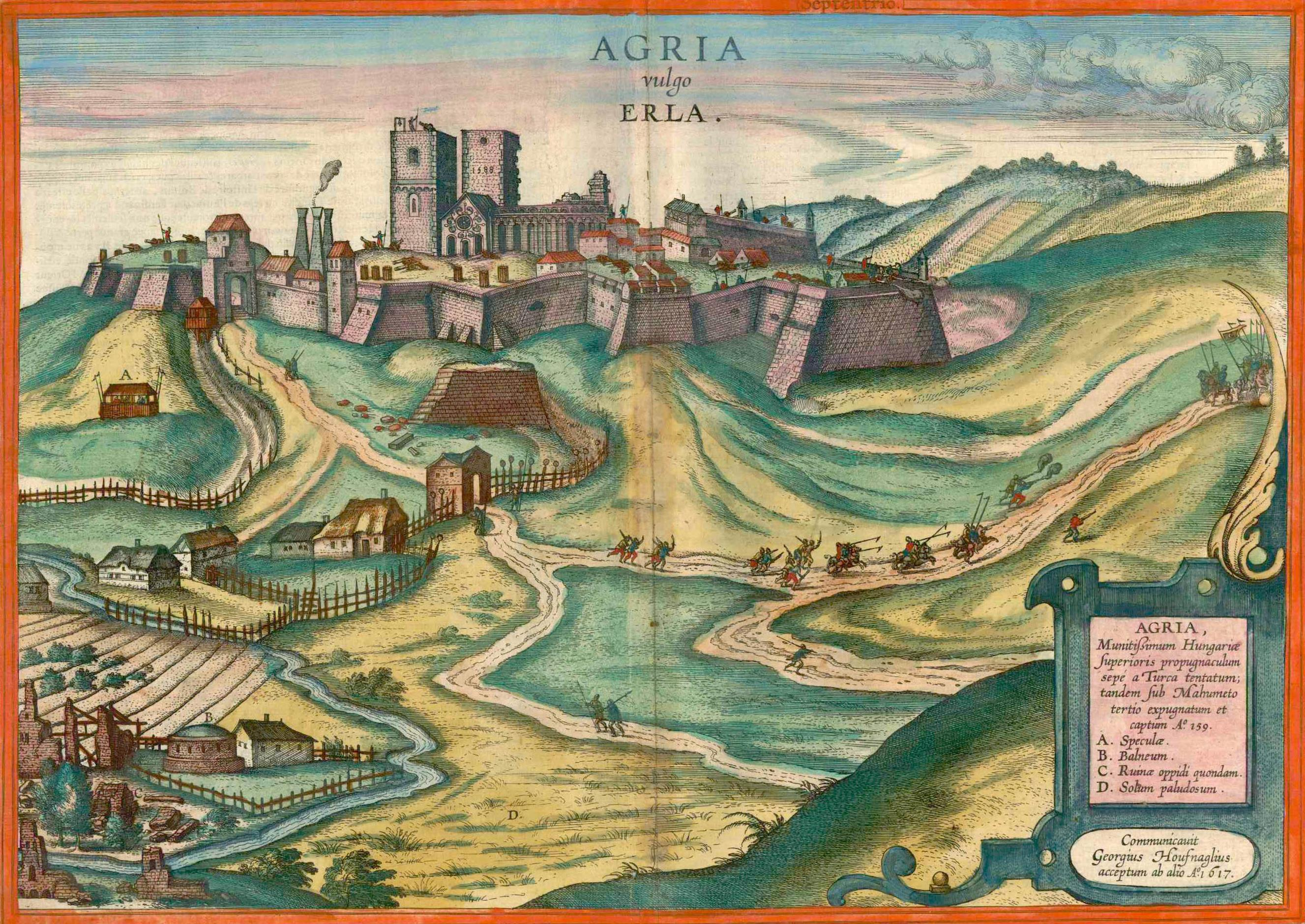 View of Eger (Agria, Erla, Erlau, Jagier, Jegar, Jager), Hungary